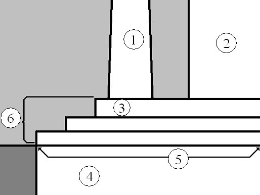 ionian order